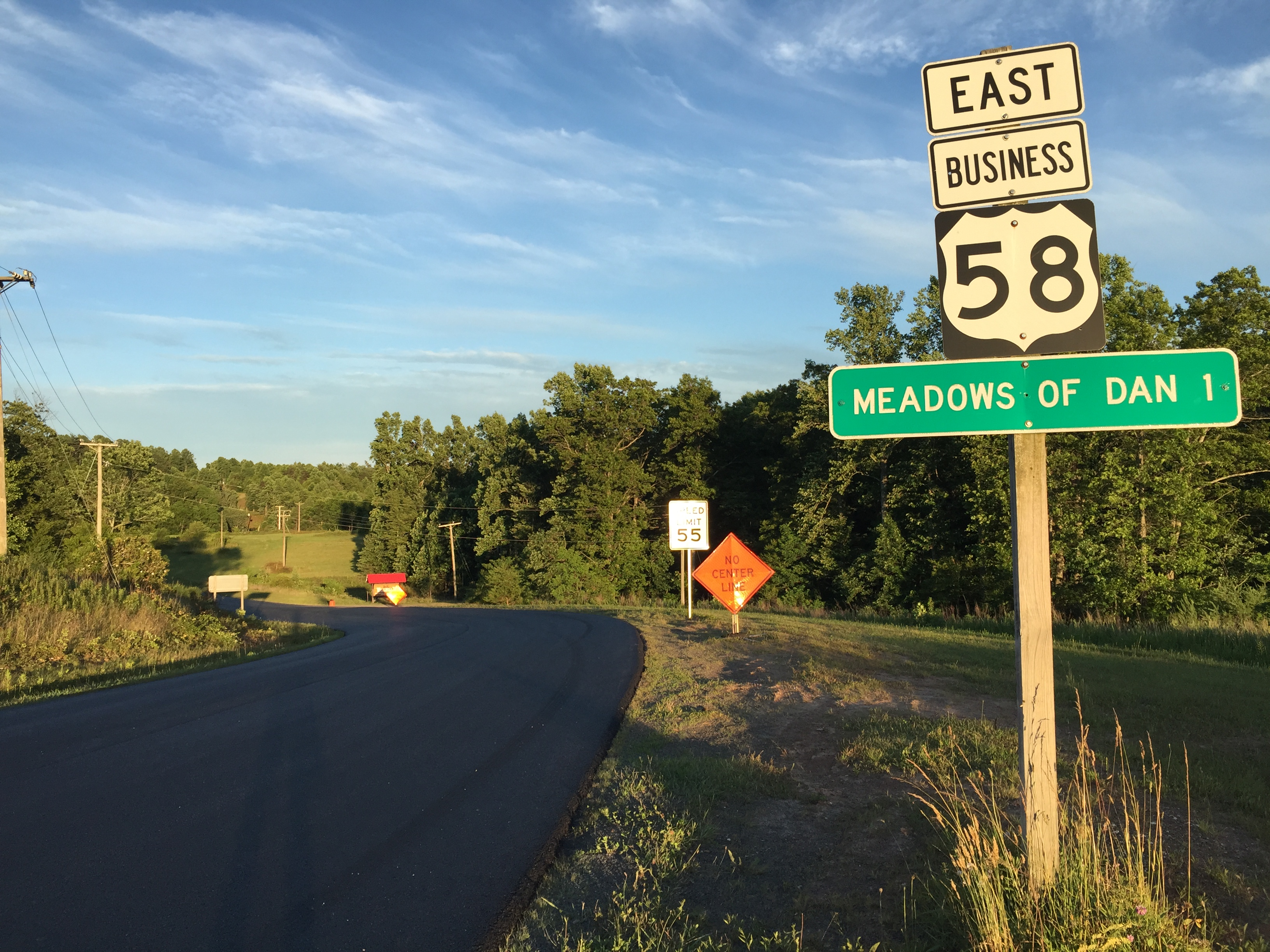 View east along U.S. Route 58 Business at U.S. Route 58 (Jeb Stuart Highway) in Meadows of Dan, Patrick County, Virginia